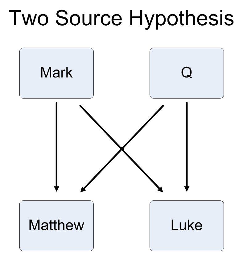 The Two Source hypothesis solution to the Synoptic problem